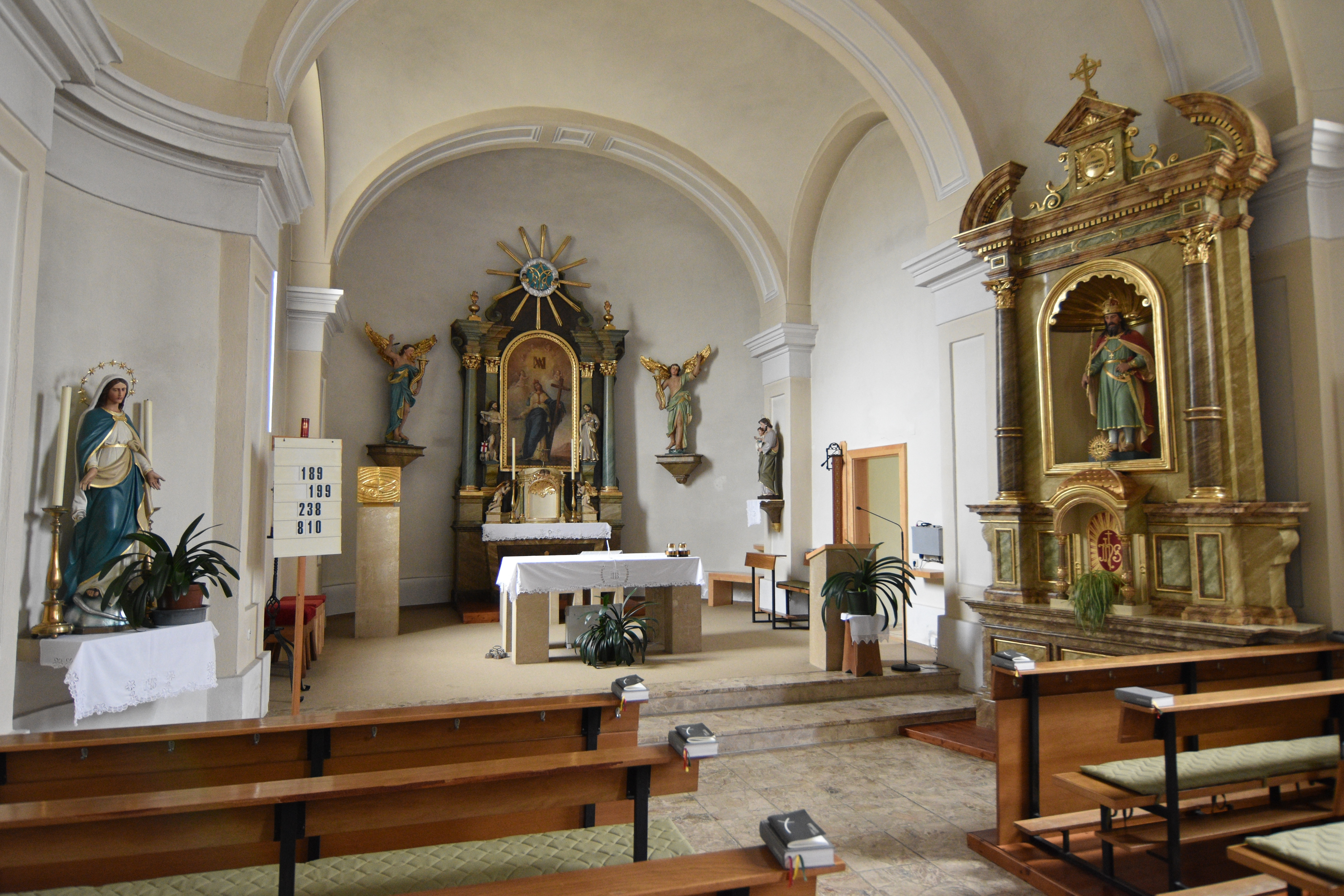 Church hl. Stephan (Rauchwart) - Interior